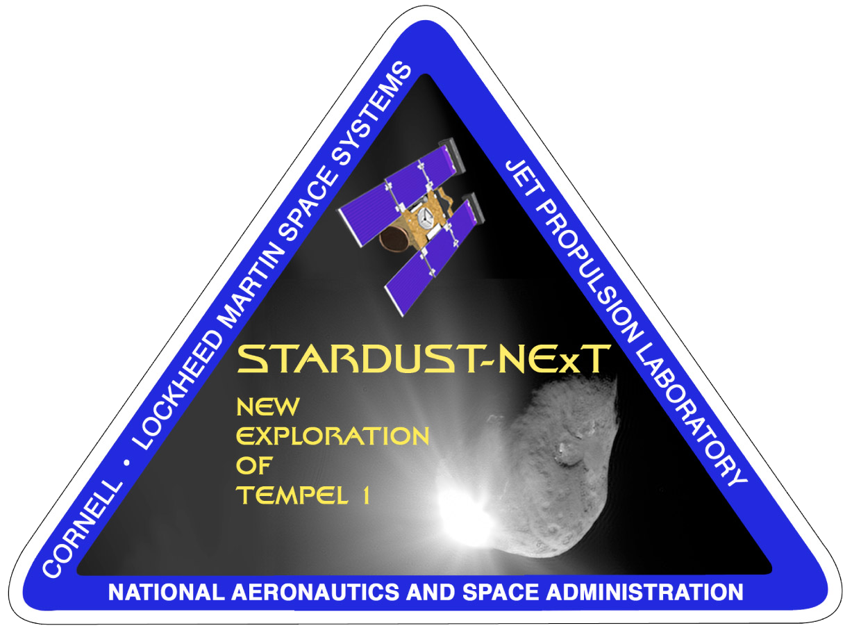 Stardust-NExT mission logo.